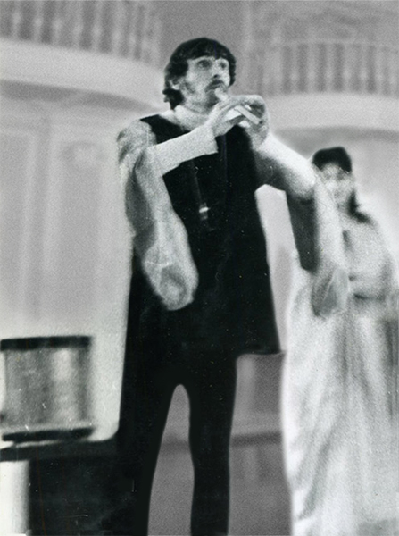 Aleksandr Chazov